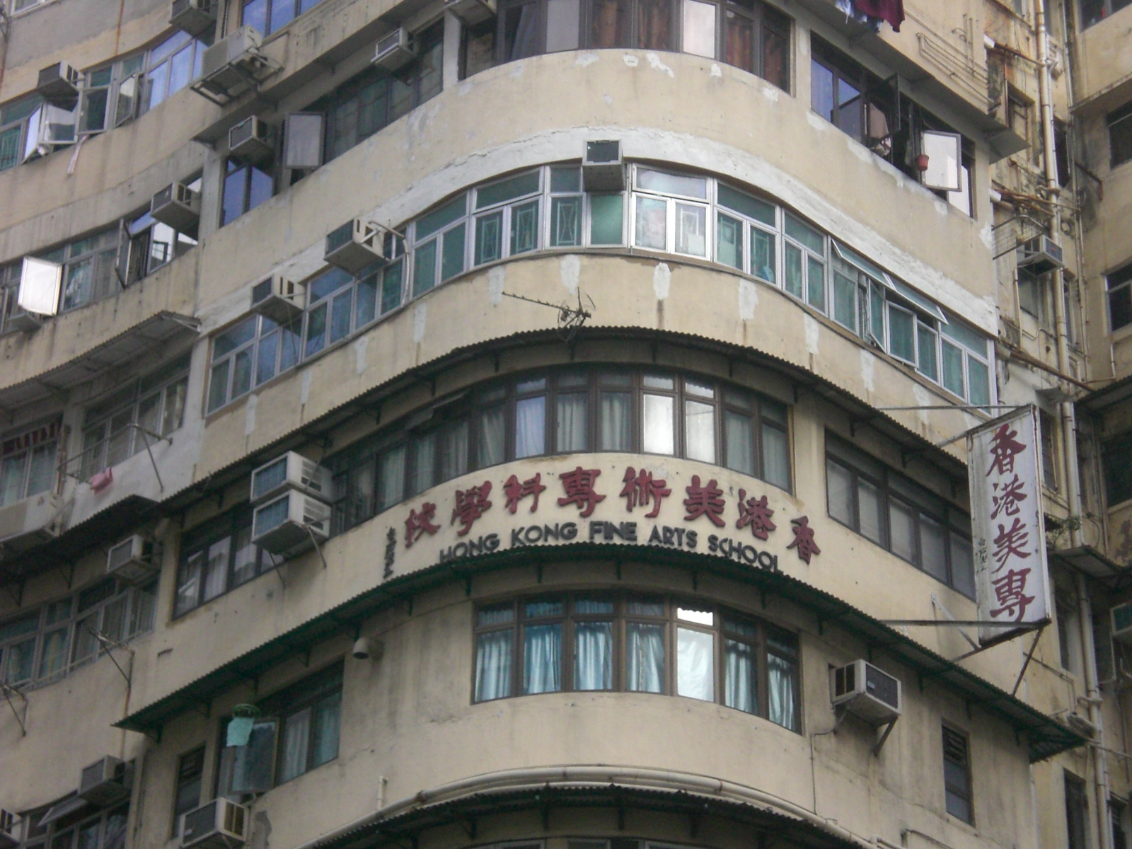 灣仔史釗域道與zh:駱克道交界 江啟明之母校